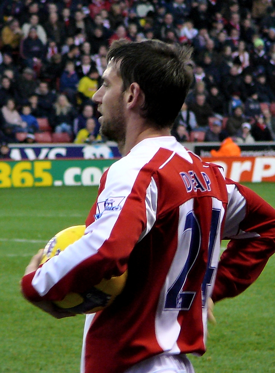 Rory Delap, about to take a throw-in for Stoke City, against Arsenal